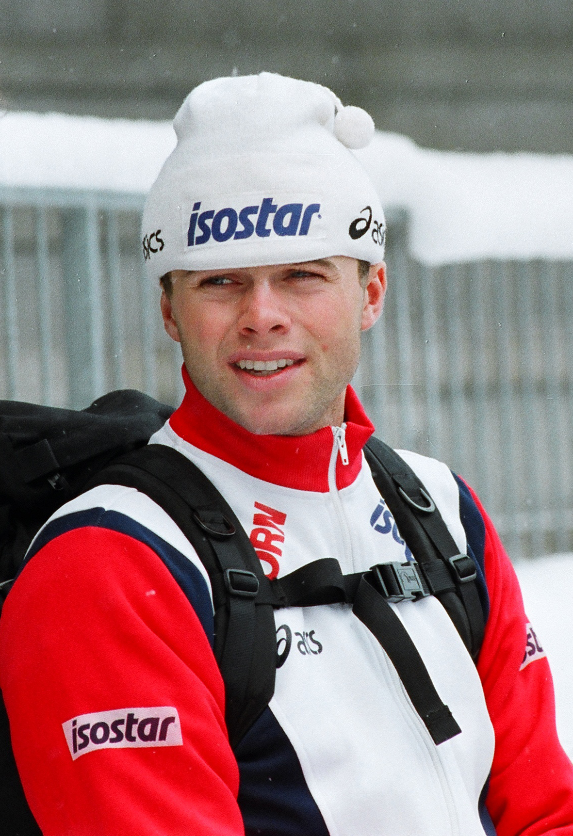 Ådne Søndrål is a former Norwegian speedskater